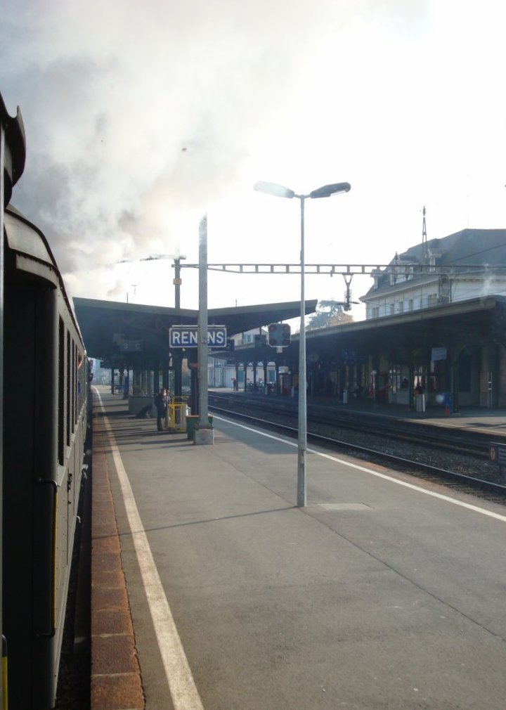 Special steam train for the 150th anniversary of the Lausanne-Genève rail track